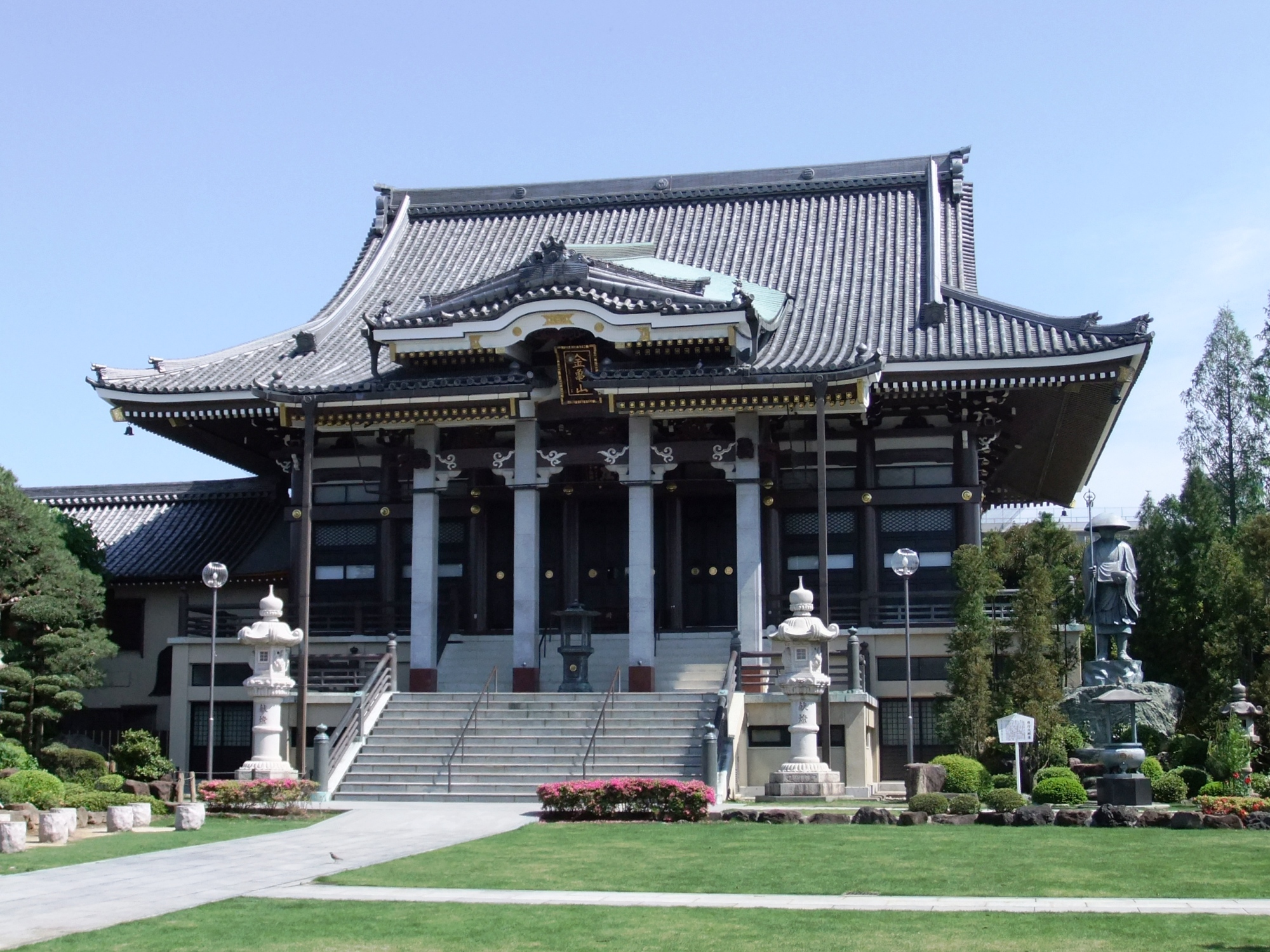 Sangaku-in temple in Warabi-shi, Saitama